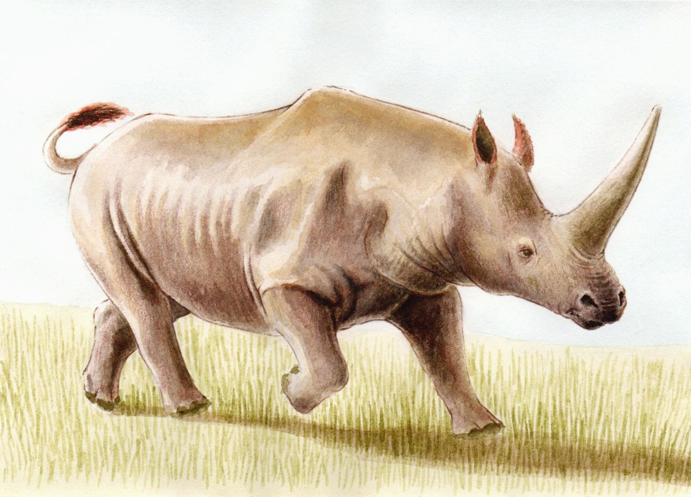 A recreation of the extinct mammal Iranotherium